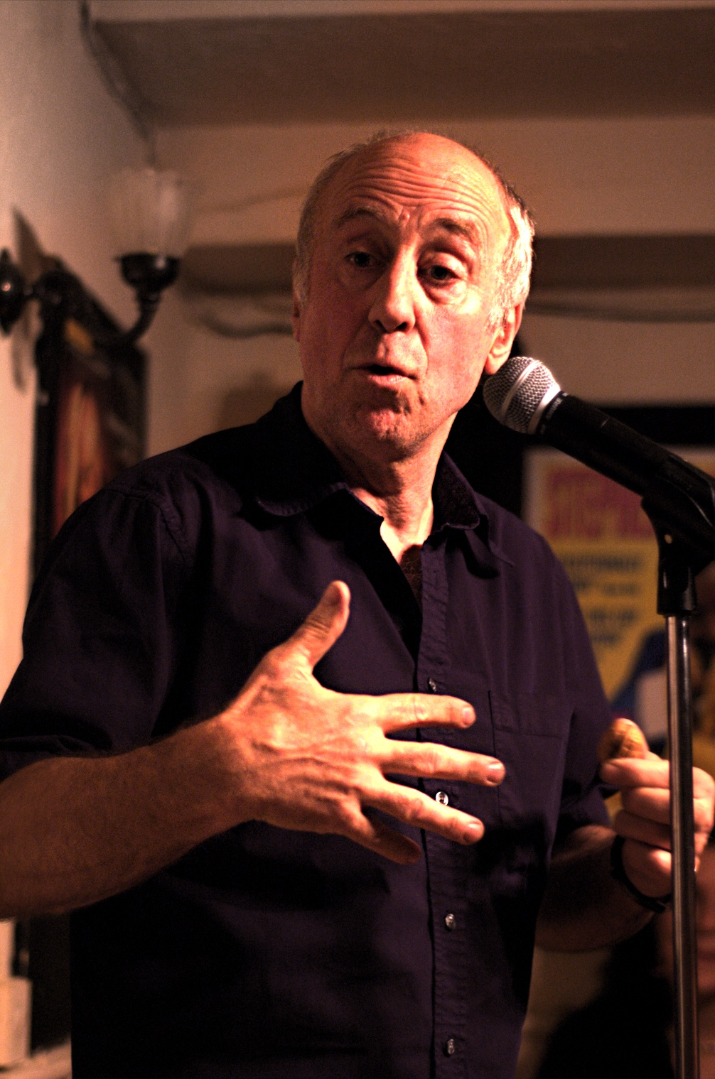 Norman gave a matchless performance of stand-up comedy at the Washington Arms. His splendidly surreal performance consisted mainly of seemingly ad-libbed banter with a 'visual comedy' stunt involving bags of various sizes.